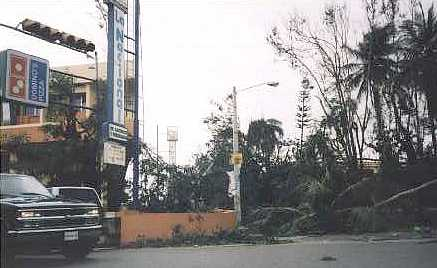 Taken by myself near my home, back in 1998. Arroyo Hondo sector of Santo Domingo.